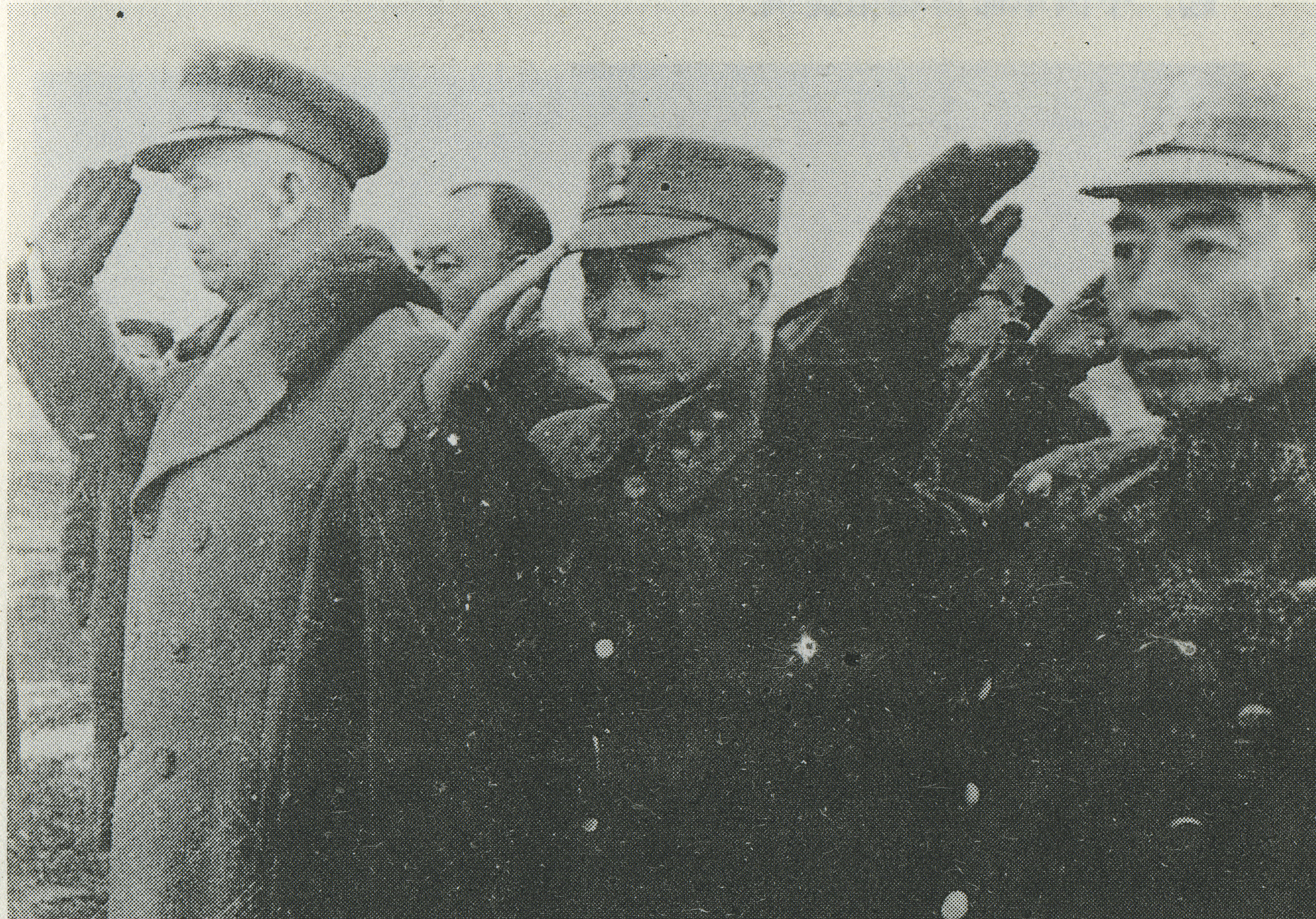 Three people group at Haokou in China 1946